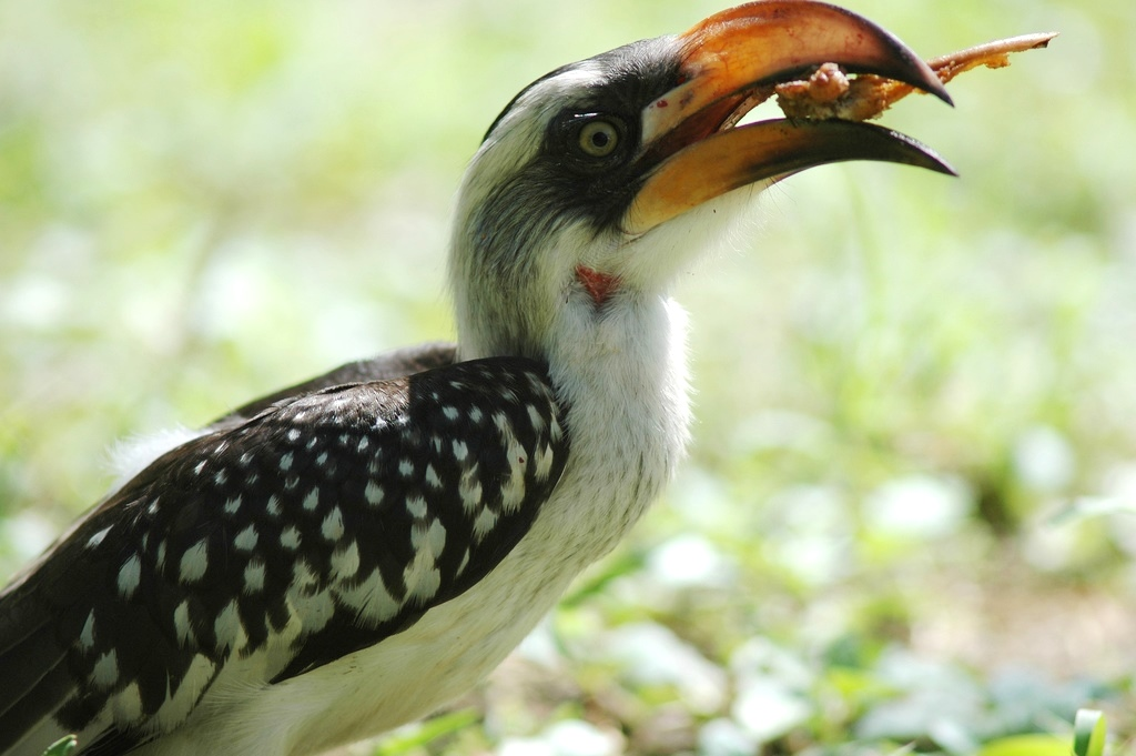 Eastern Yellow-billed Hornbill - Tockus flavirostris